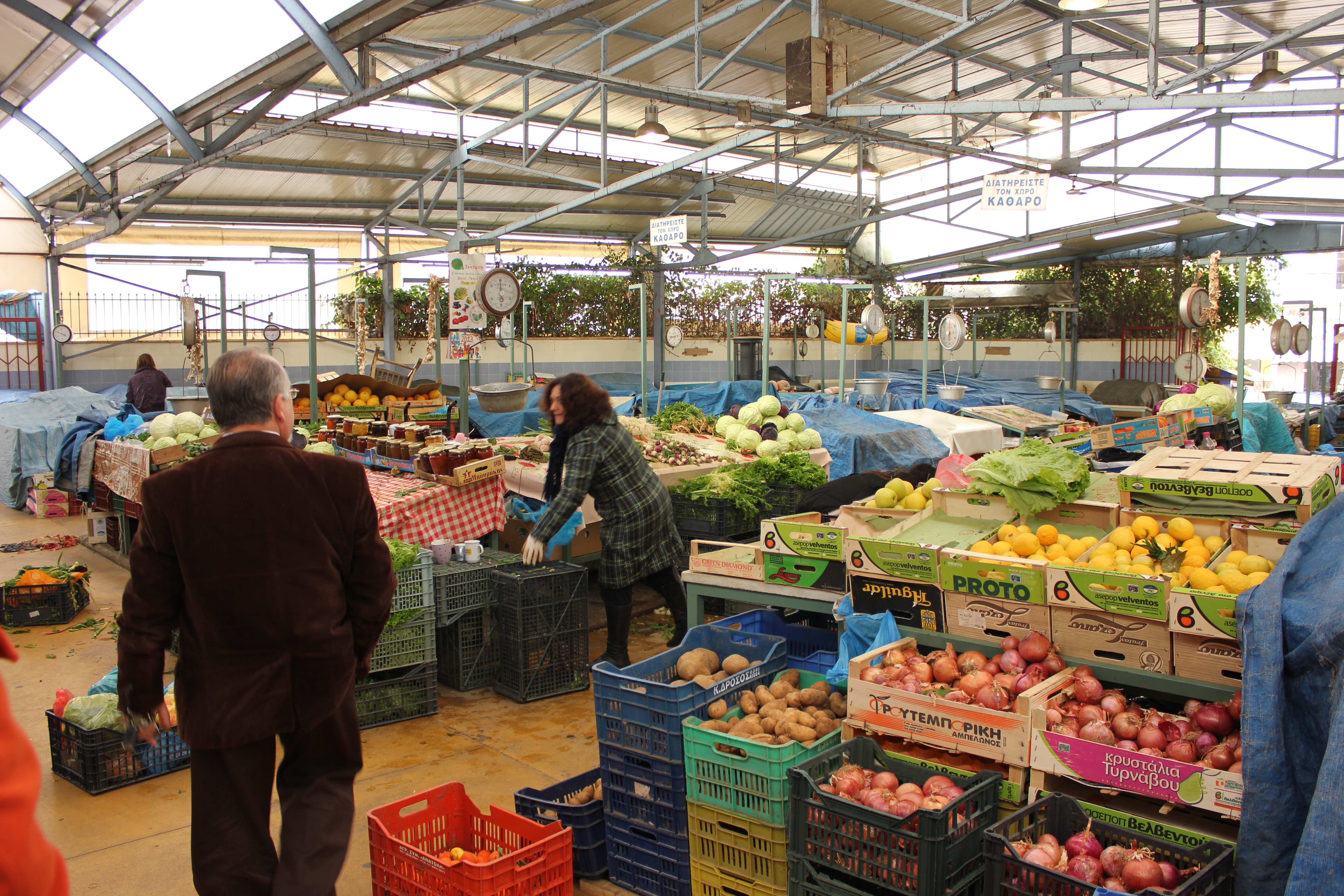 Street market in Arta, Greece